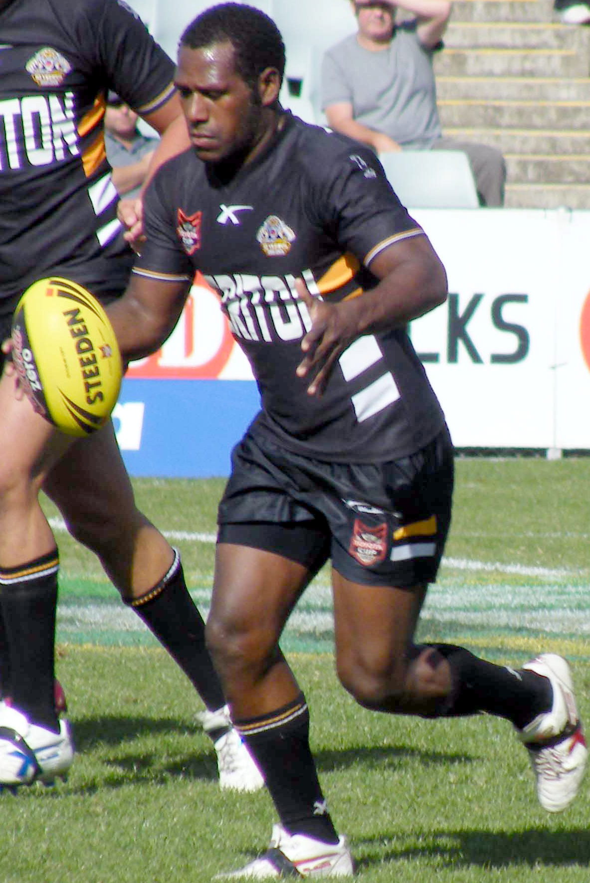 Robert Lui